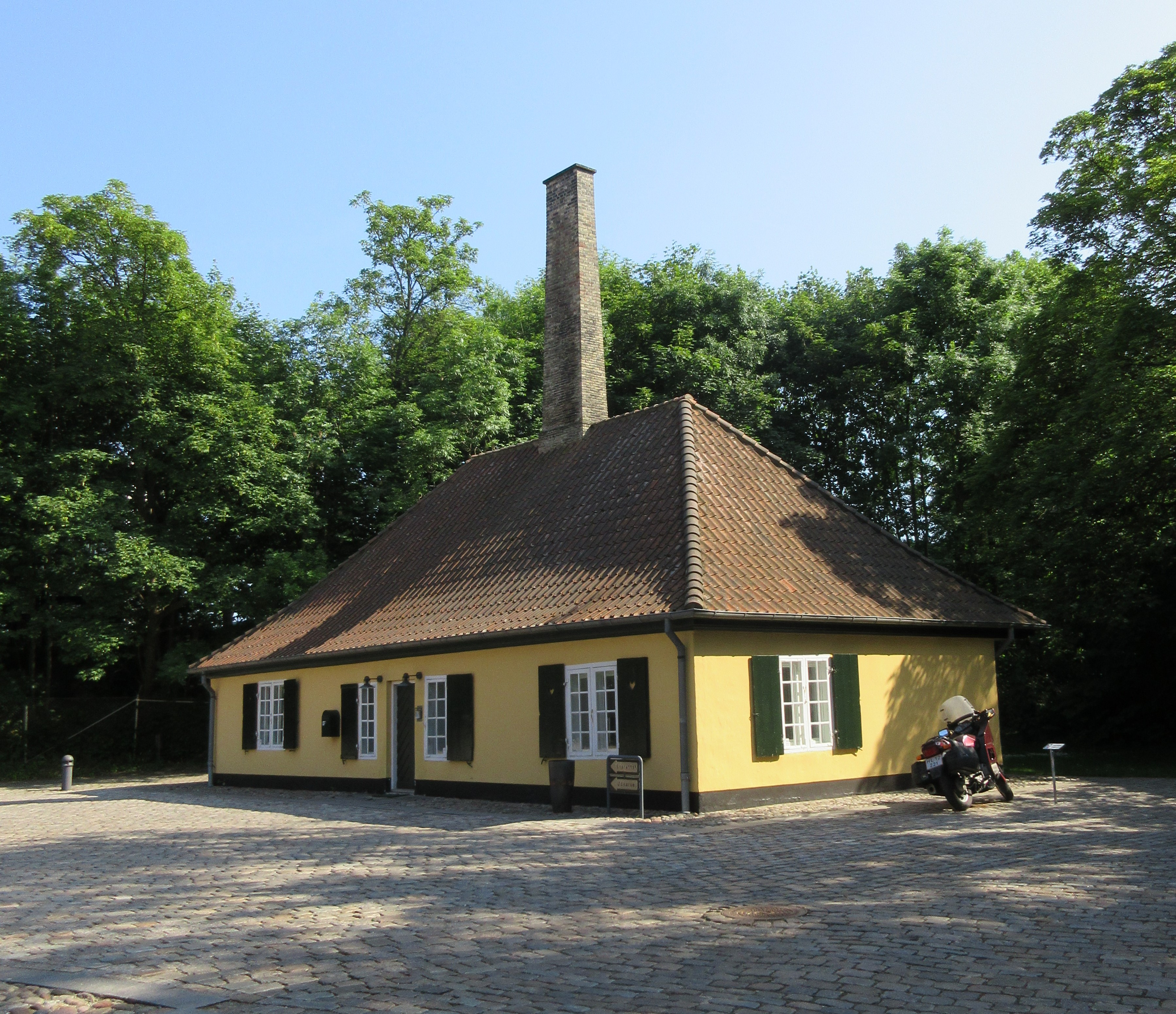 Former forge located inside Kalvebod Bastion in Copenhagen, Denmark